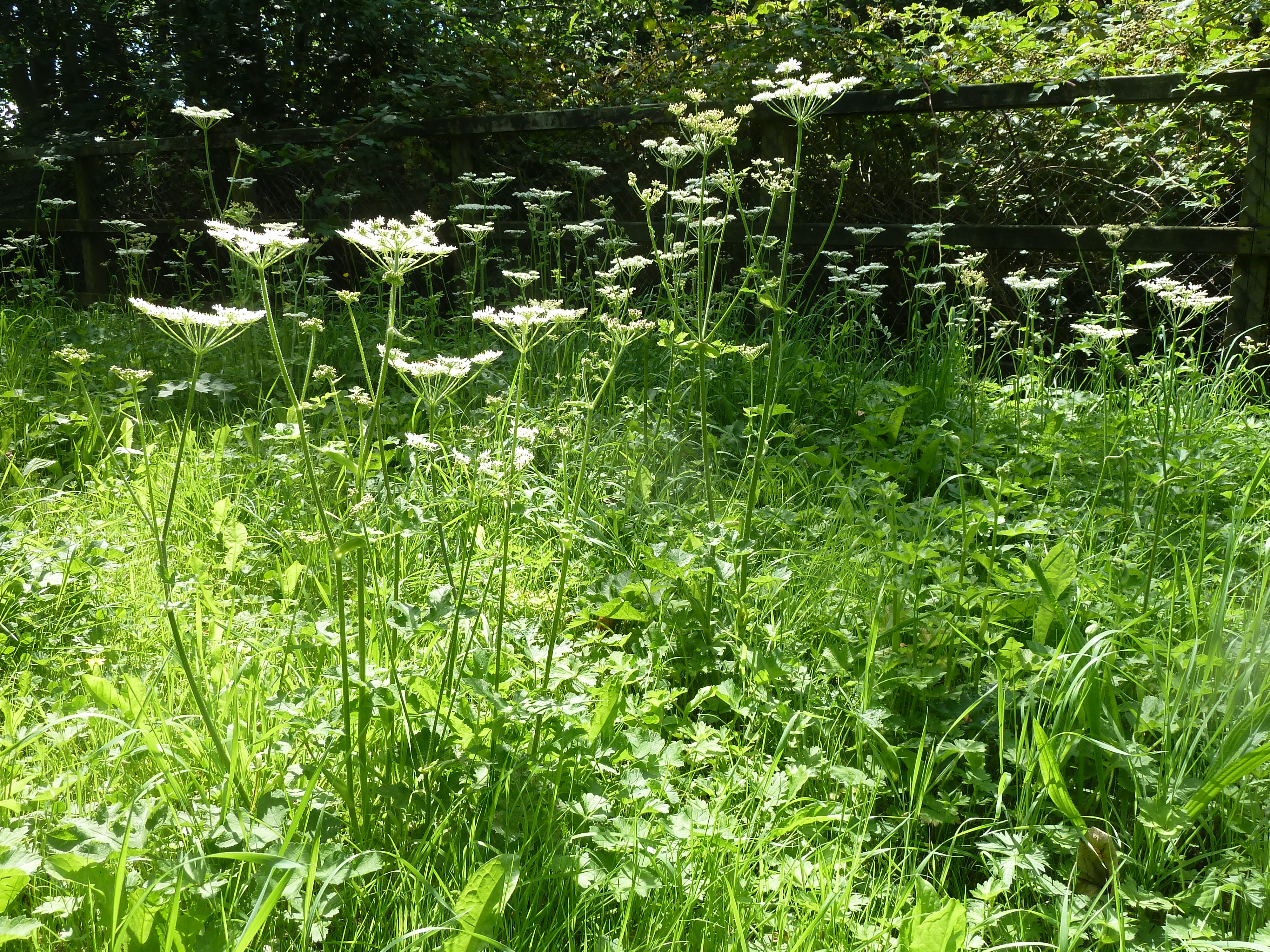 Hilden, Co. Antrim, Ireland Nature in July